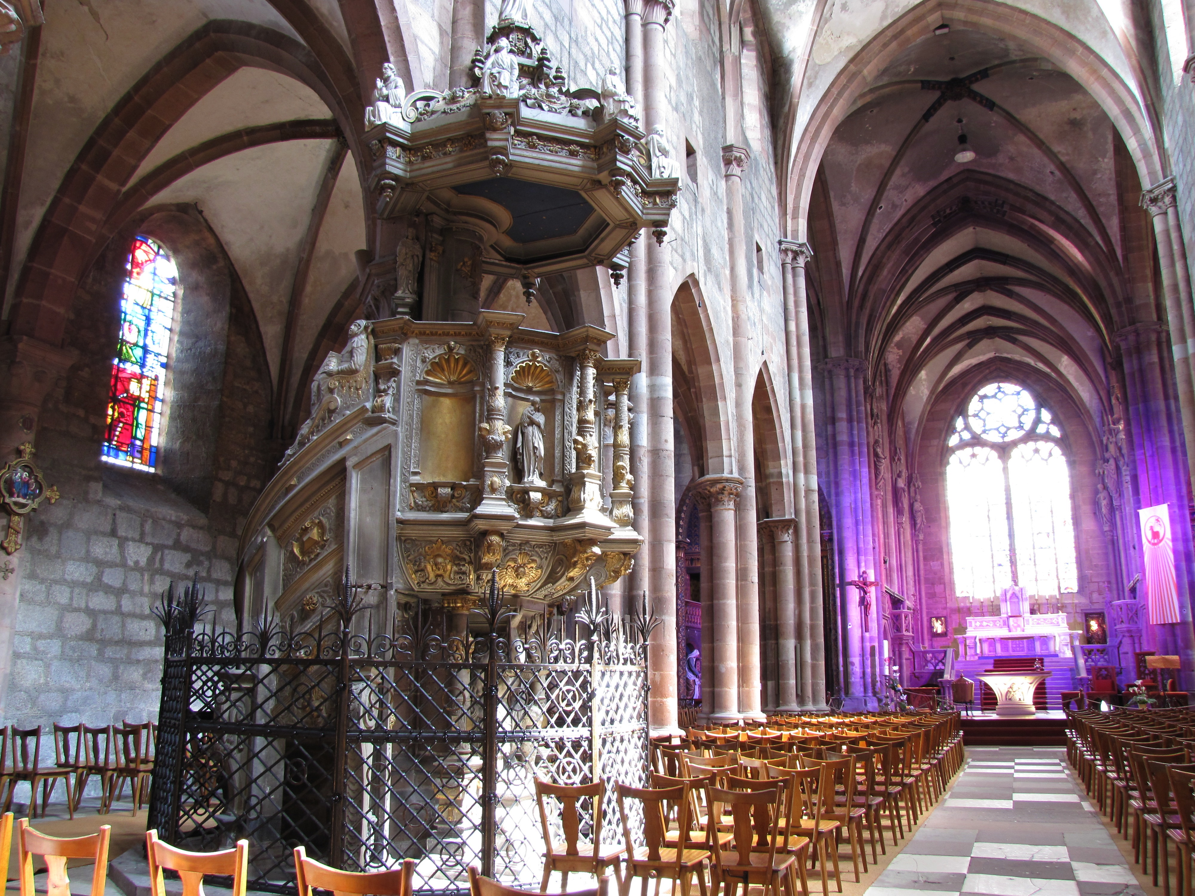 Alsace, Bas-Rhin, Sélestat, Église Saint-Georges (PA00084978, IA00124588). Chaire à prêcher (1619): This object is classé Monument Historique in the base Palissy, database of the French furniture patrimony of the French ministry of culture, under the references PM67000314 and IM67008853.